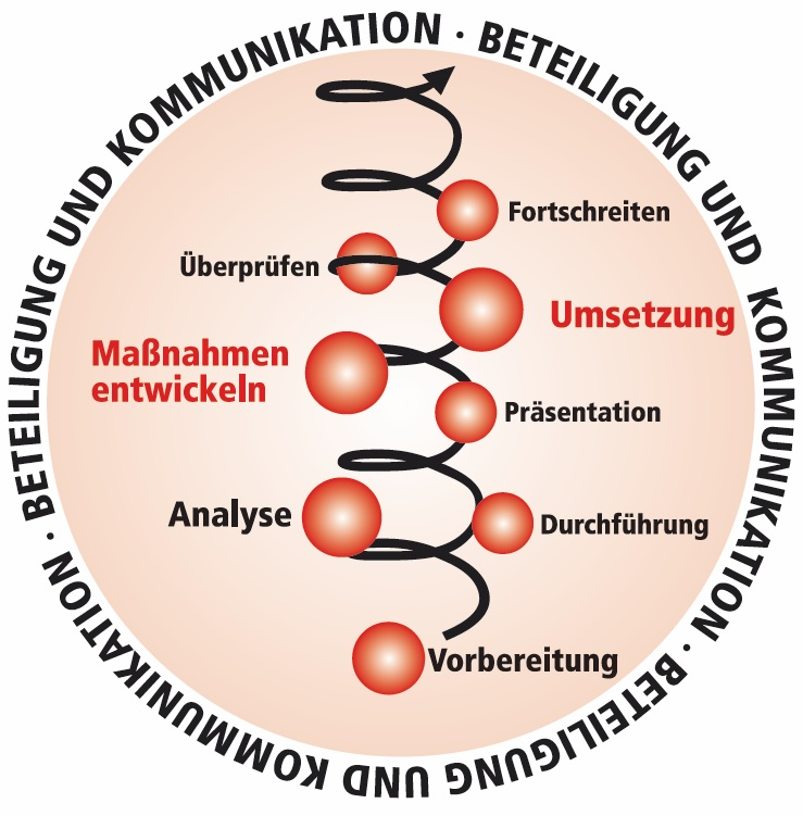 Conceptual cycle of employee surveys with the DGB Index Good work in companies and enterprises